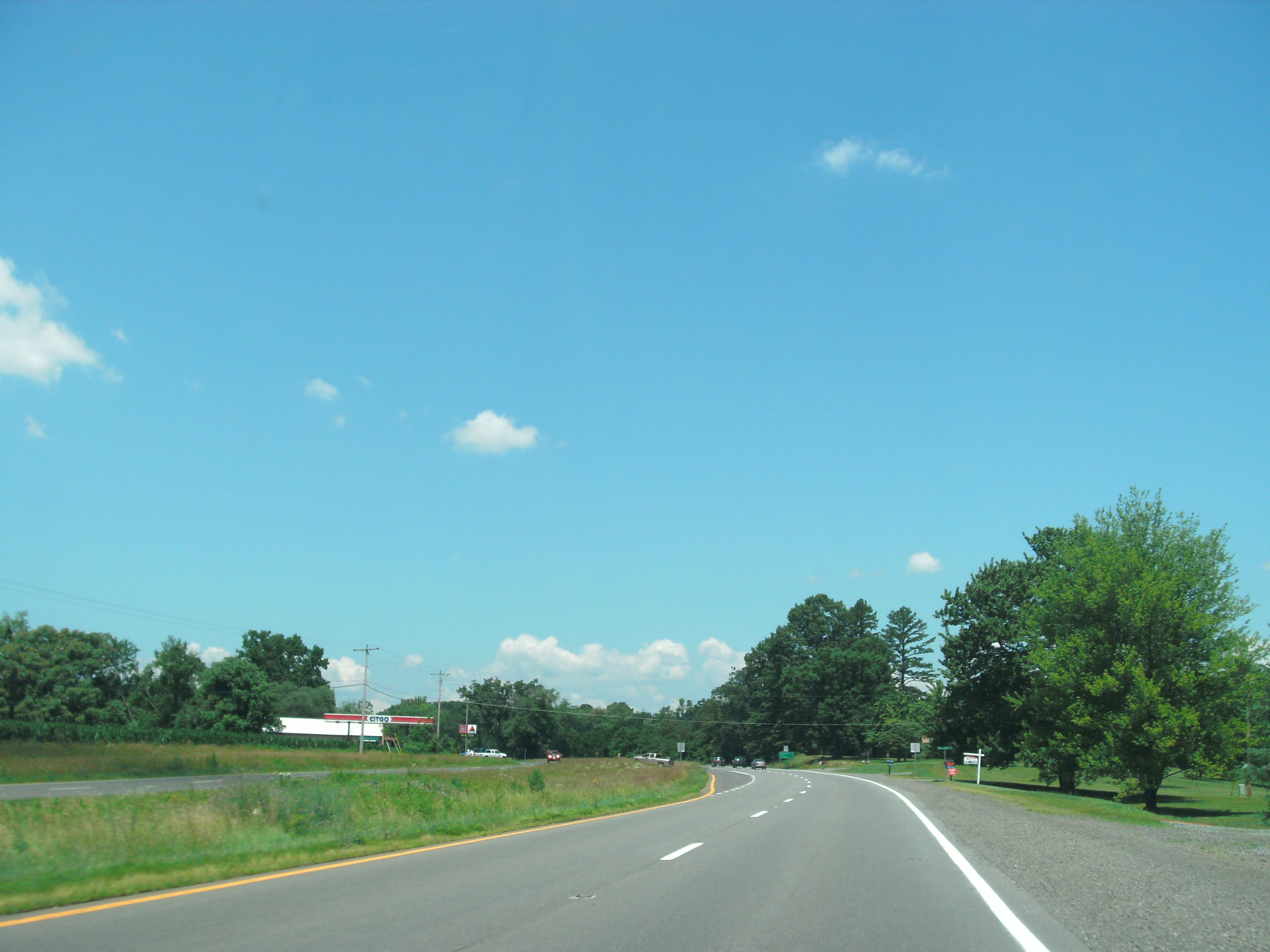 Image I took for Wikipedia, Amissville, Virginia